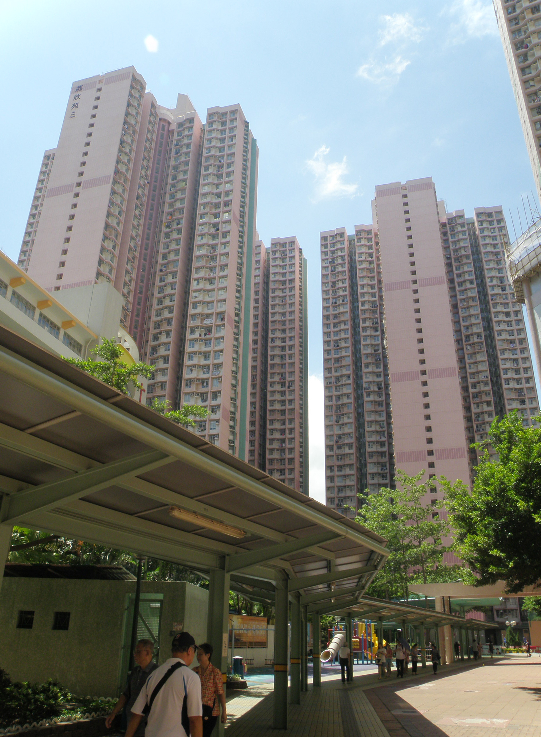 Lai Yan Court in Kau Wa Keng, Hong Kong.